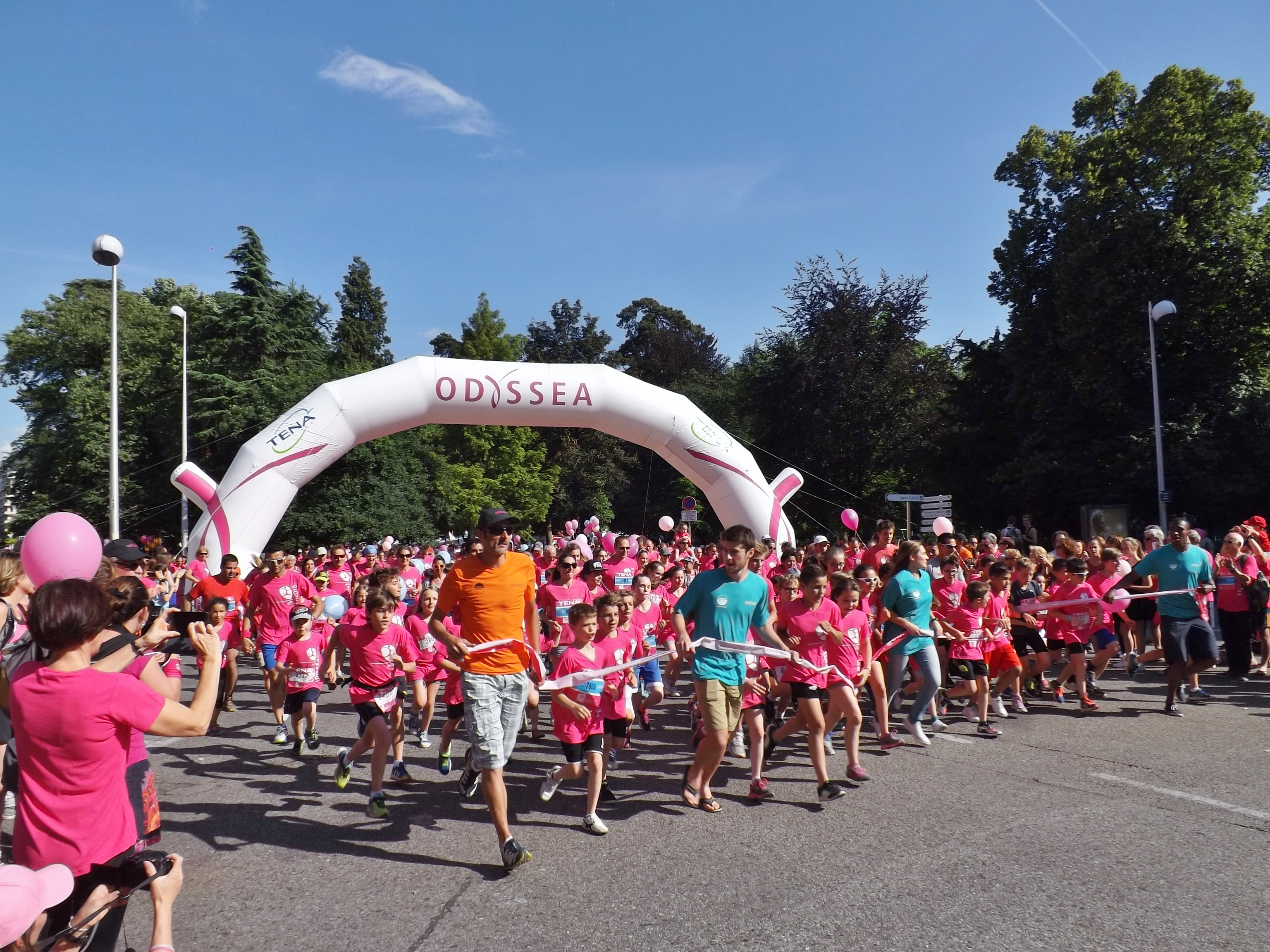 Sight of the departure of the first race (2 kilometers) during the 2015 Odyssea race againts the breast cancer in Chambéry, Savoie, France (8,200 runners in pink tee-shirts at for three races).